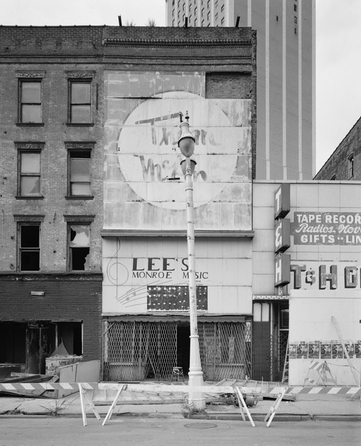 52-54 Monroe Avenue — Detroit, Michigan. |Historic American Buildings Survey—HABS image (1989).